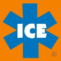 Official Logo of ICE